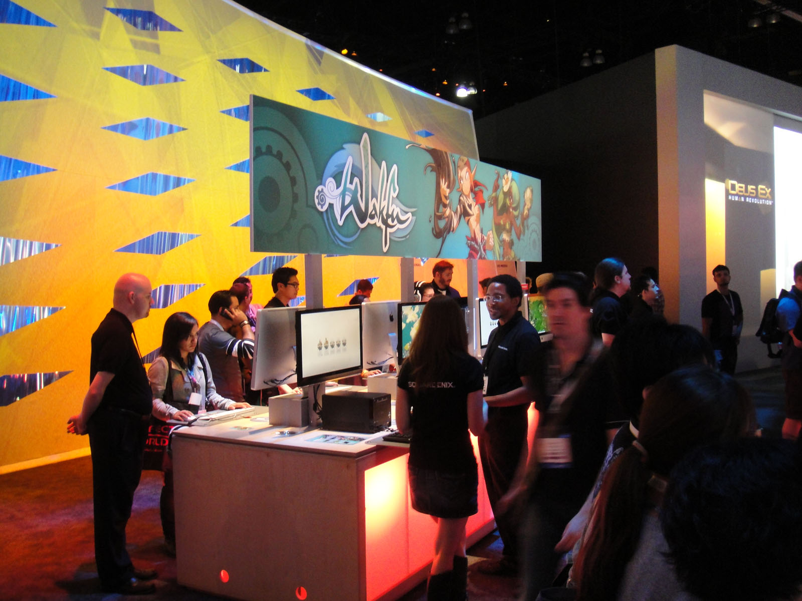 photo 2011 taken by Doug Kline If you're interested in higher resolution versions of my images, contact me via my profile page.